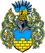 Coat of arms of the city of Bautzen in Saxony, Germany. Hornjoserbsce: Wopon wulkeho wokrjesneho města Budyšina.